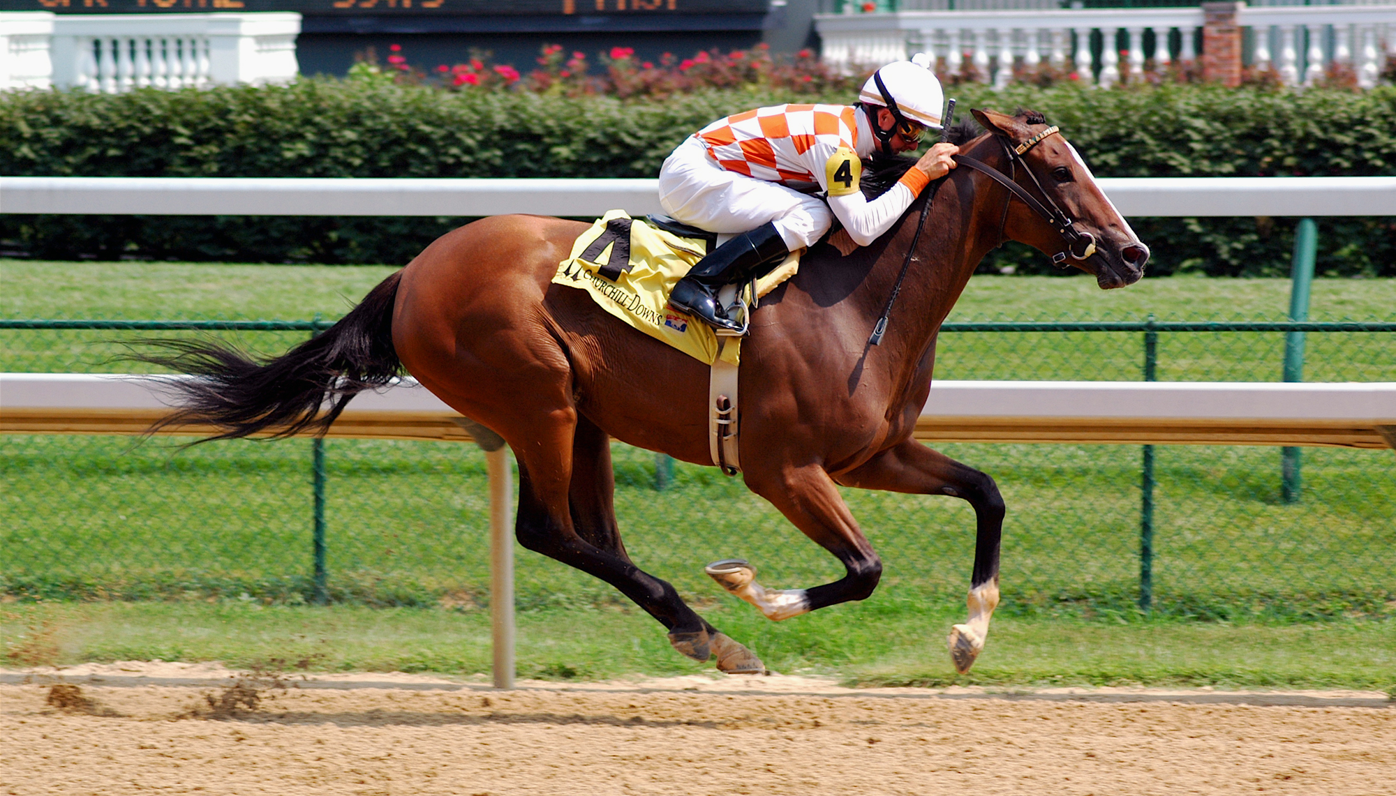 Horse racing at Churchill Downs.